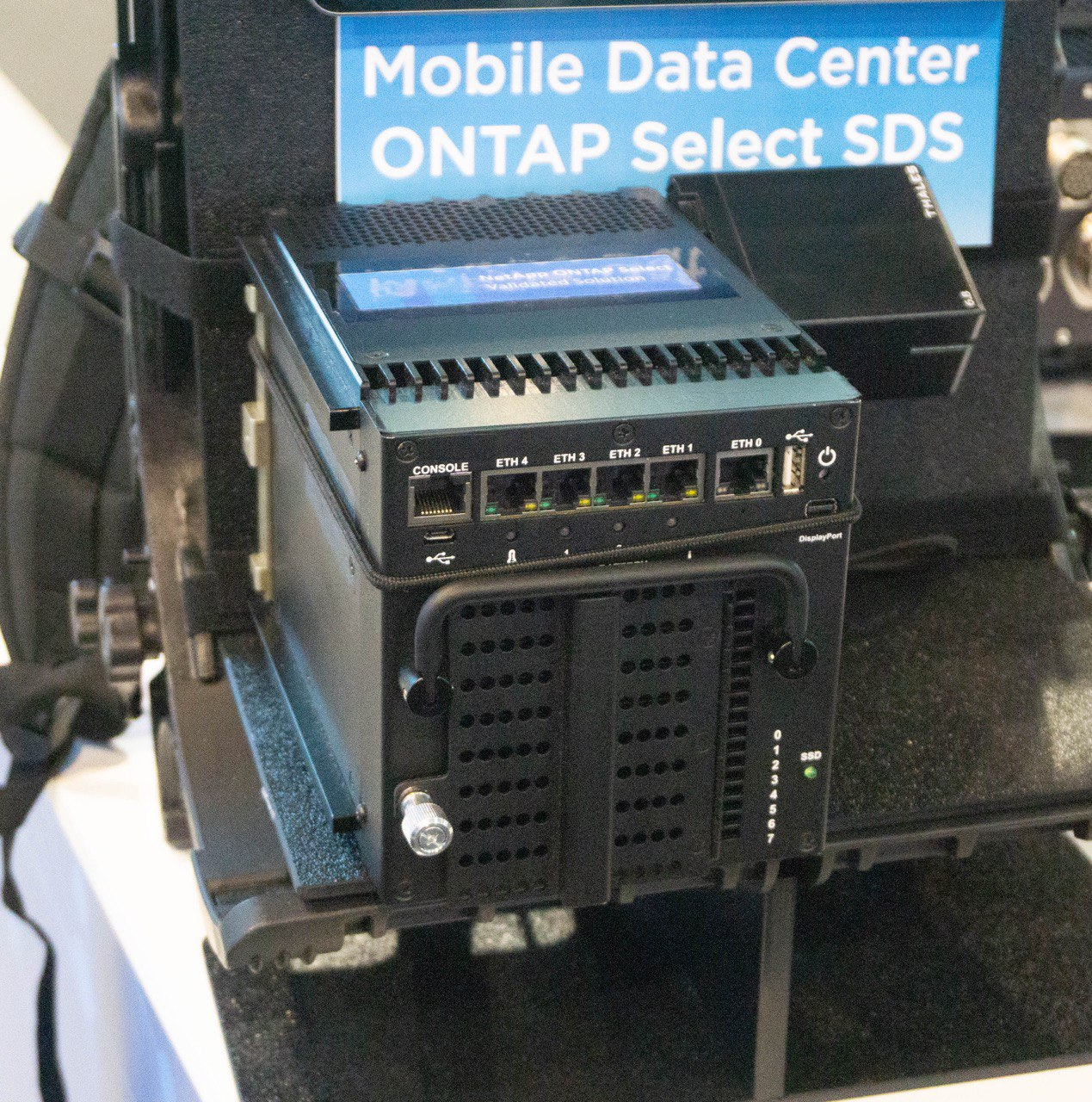 NetApp Mobile Data Center ONTAP Select SDS